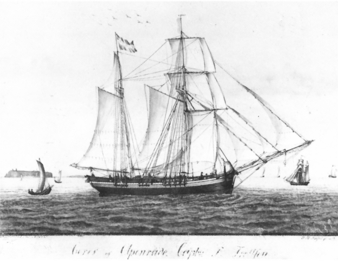 The brig Ceres of Aabenraa, painted in ink and watercolour by Johann Heinrich Jessen, who was a skipper and part-time painter. Size: 19 x 23 cm. Privately owned. Source: Hanne Poulsen, Danske Skibsportrætmalere, page 55.